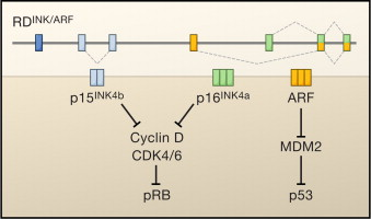 Kim et al.